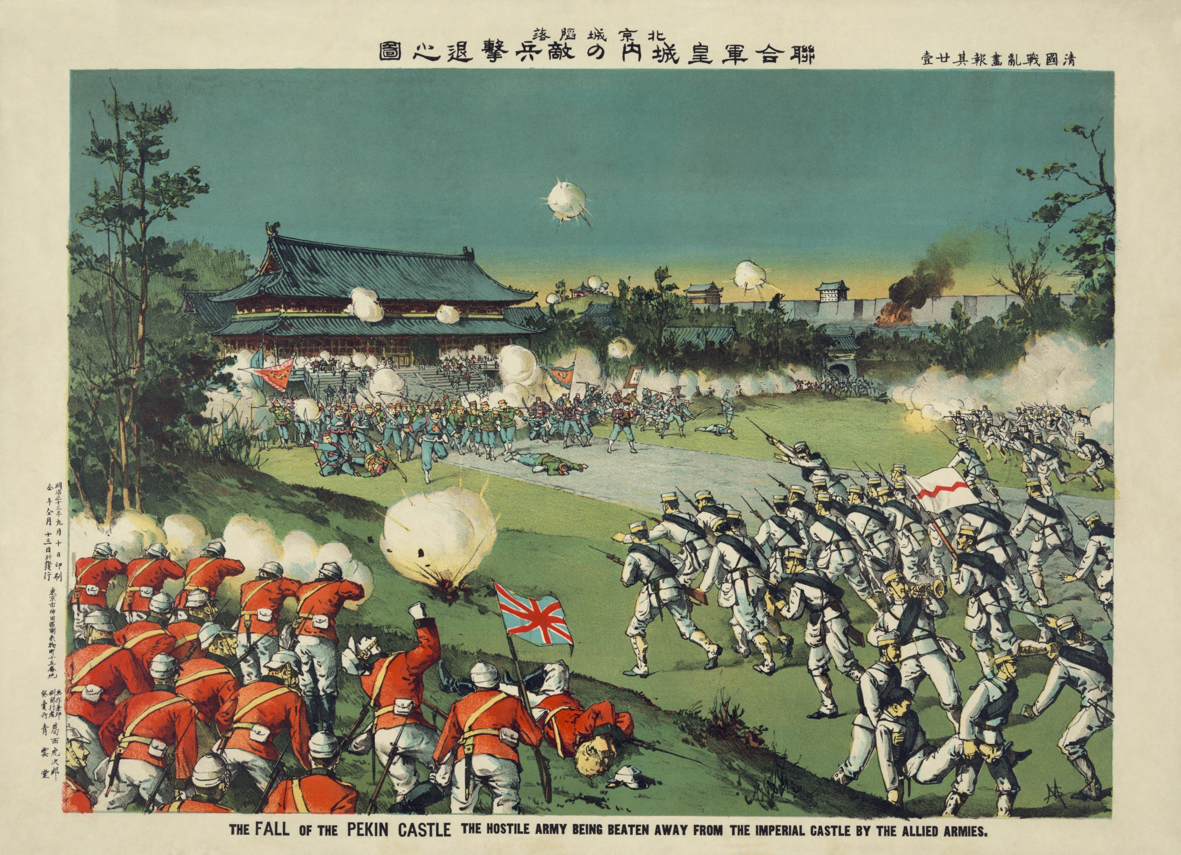 An attack on Beijing Castle during the Boxer Rebellion.